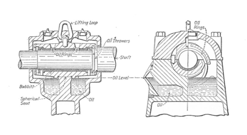 Fig. 149 Bearing with lubrication by ring oiler See other images from this source in 'Electrical Machinery'